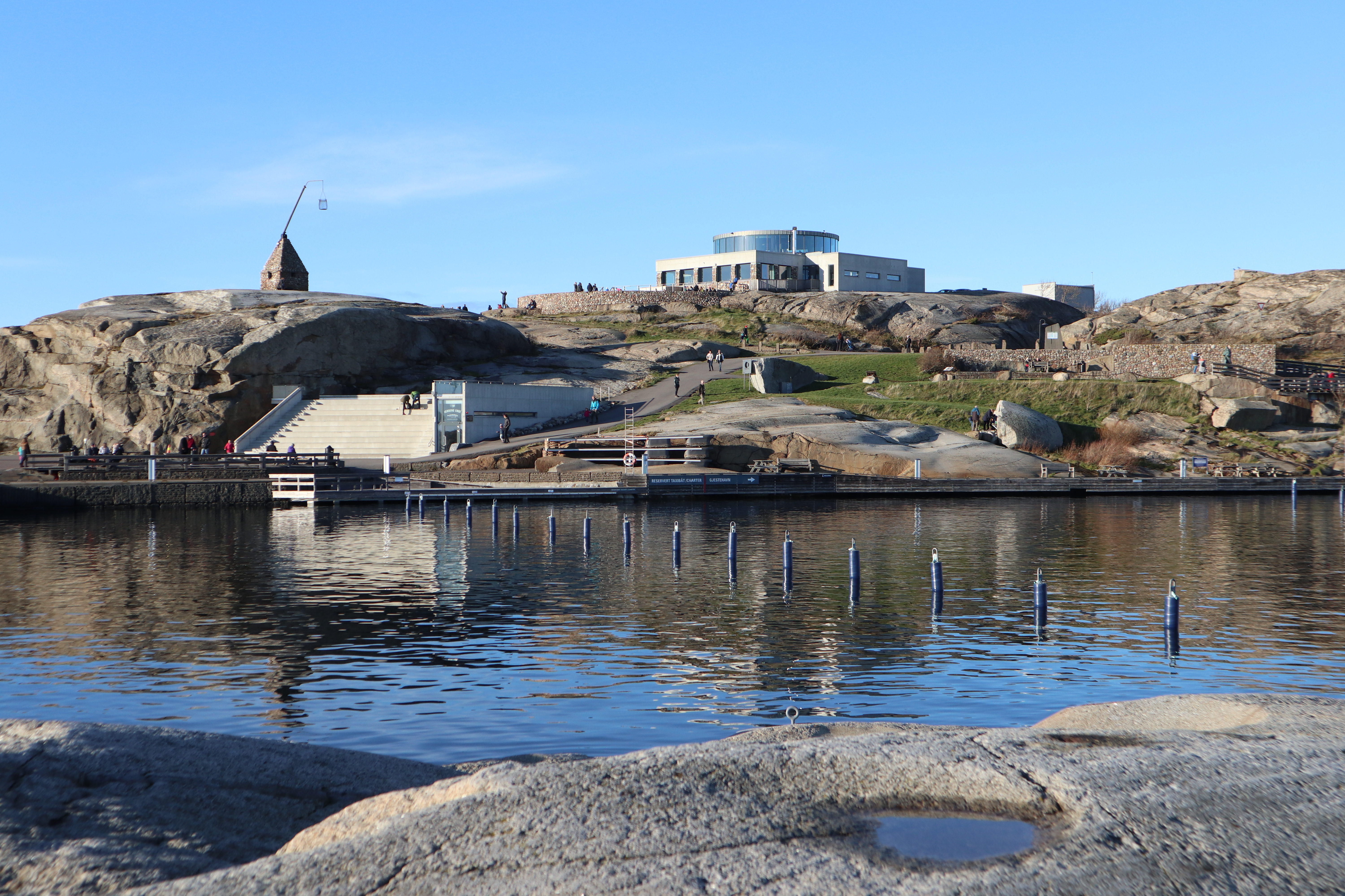 Nasjonalparksenter Verdens Ende